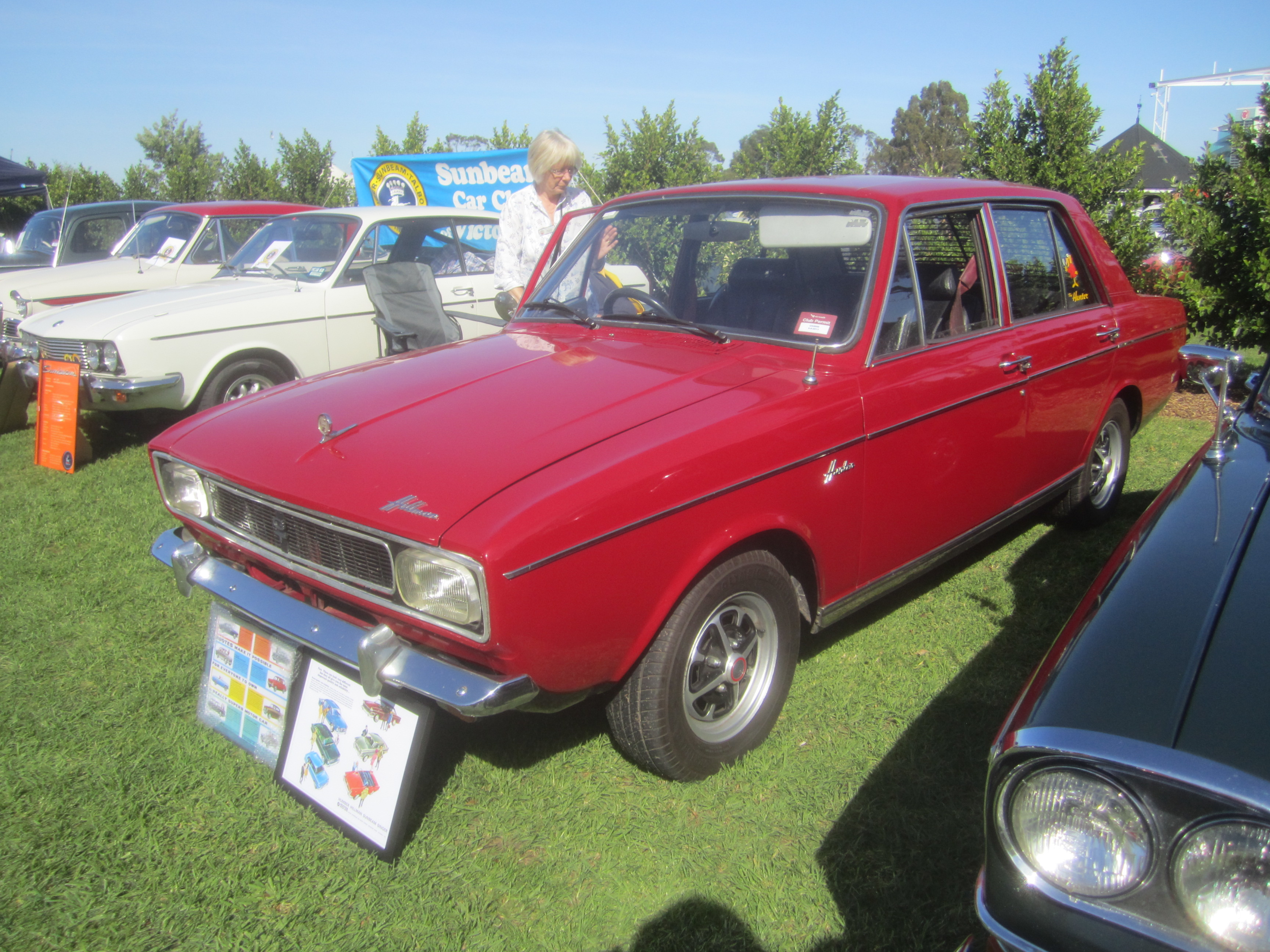 The Hillman Hunter was built from 1966-79, available as a 4 door saloon, 5 door estate (1967) and a 2 door coupe. In 1967 the Deluxe replaced the Minx as the base model then there was the Super, GL, the sporty GT and top GLS with twin carbys They were built in Australia from CKD kits by Chrysler Australia from 1967, the HB. Available was the base Arrow and the Hunter. From 1969 the HC, round headlights, now rectangular. The Hunter was the base model, the luxury model was the Royal and the sporty model was the GT, also available the Safari estate. The 1971 facelift was the HE, new grille and smaller headlights. Base model was now the Hustler, and the GT was now the Royal 660. The Hunter phased out in 1973 in Australia Engine; 1725cc 4 cyl, base models had a 1500cc engine.